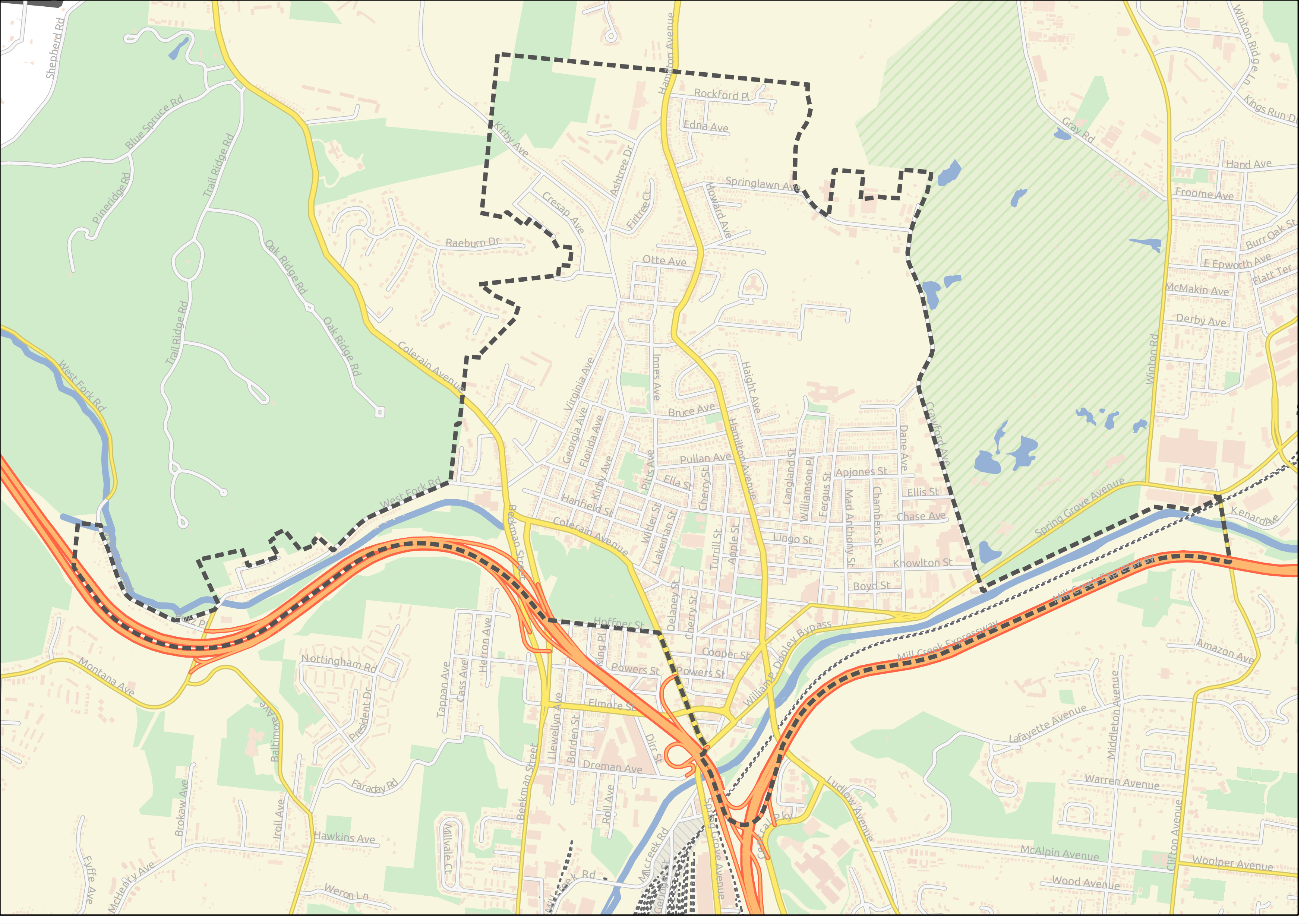 A map of Northside Cincinnati. This map may be incomplete, and may contain errors. Don't rely solely on it for navigation.